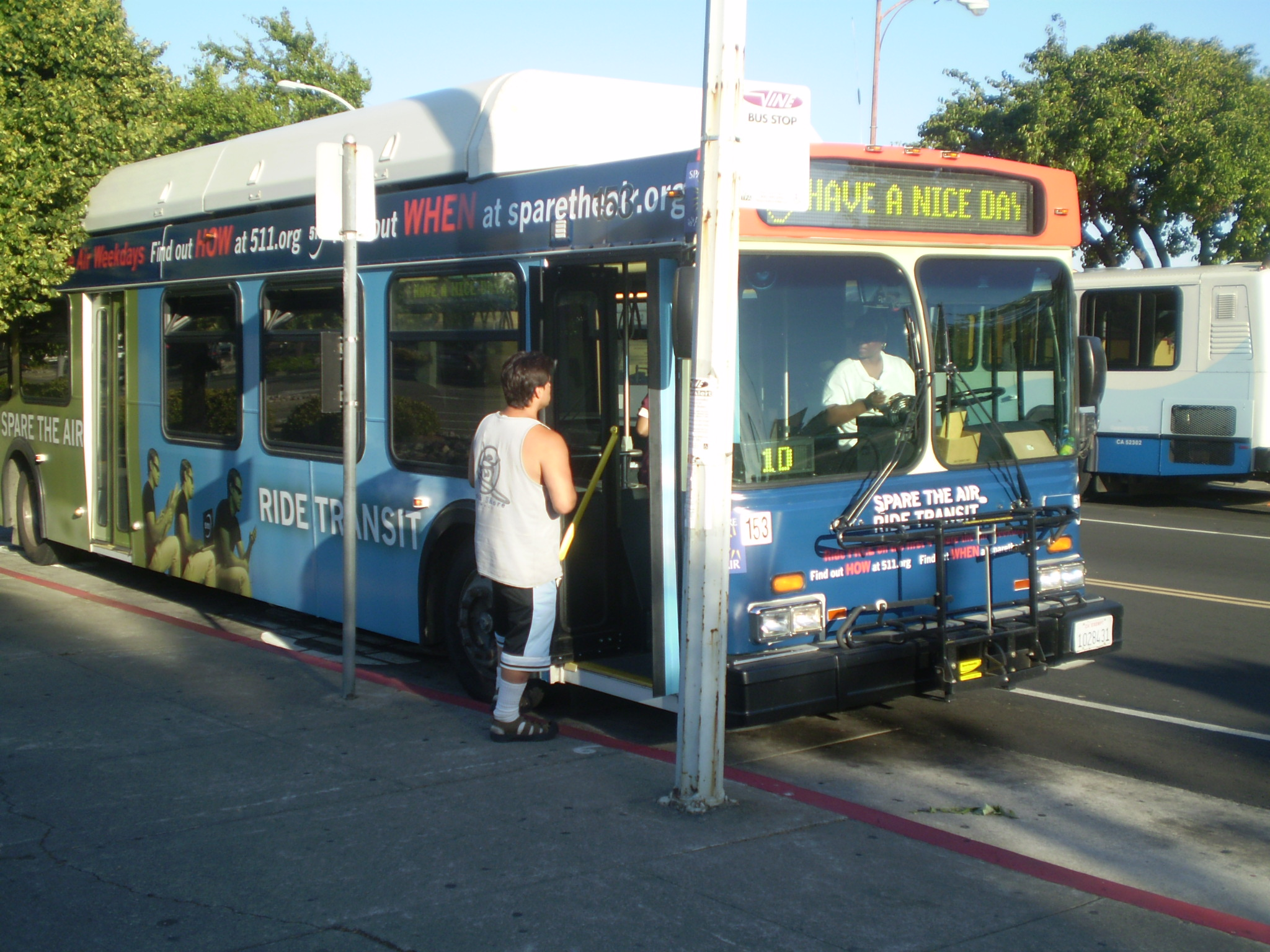 VINE Transit bus 153 wrapped in Spare The Air advertising.